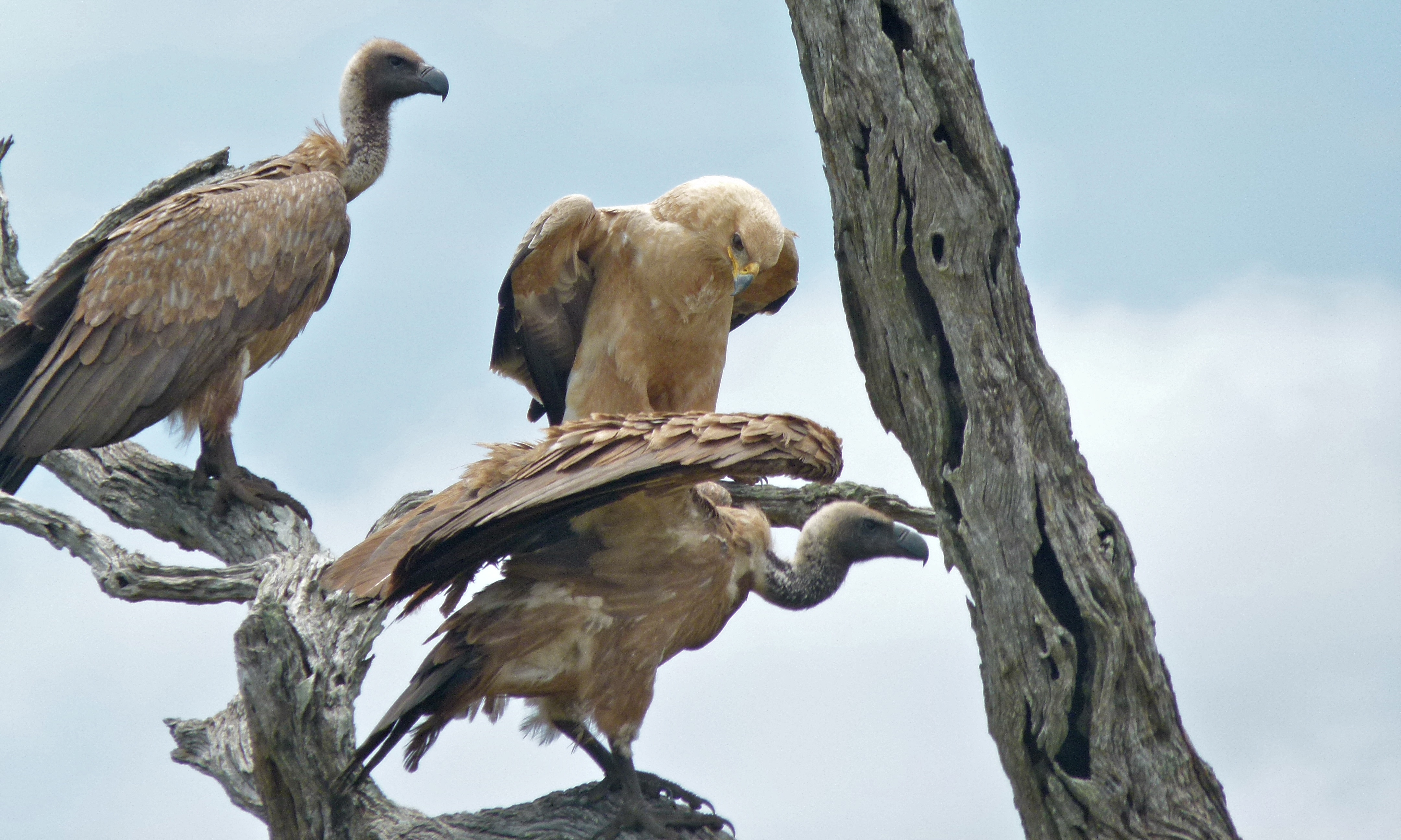 H1-3 South of Satara, Kruger NP, SOUTH AFRICA